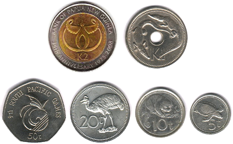 Kina coins